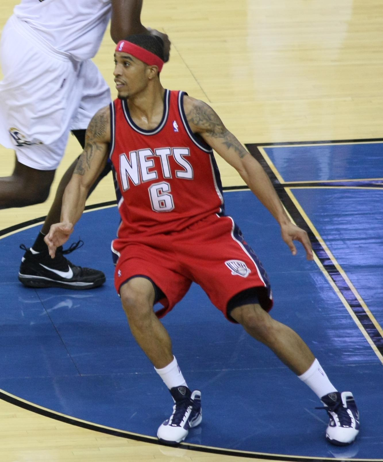 Courtney Lee playing with the New Jersey Nets v/s Washington Wizards October 31, 2009 at Verizon Center in Washington, D.C.